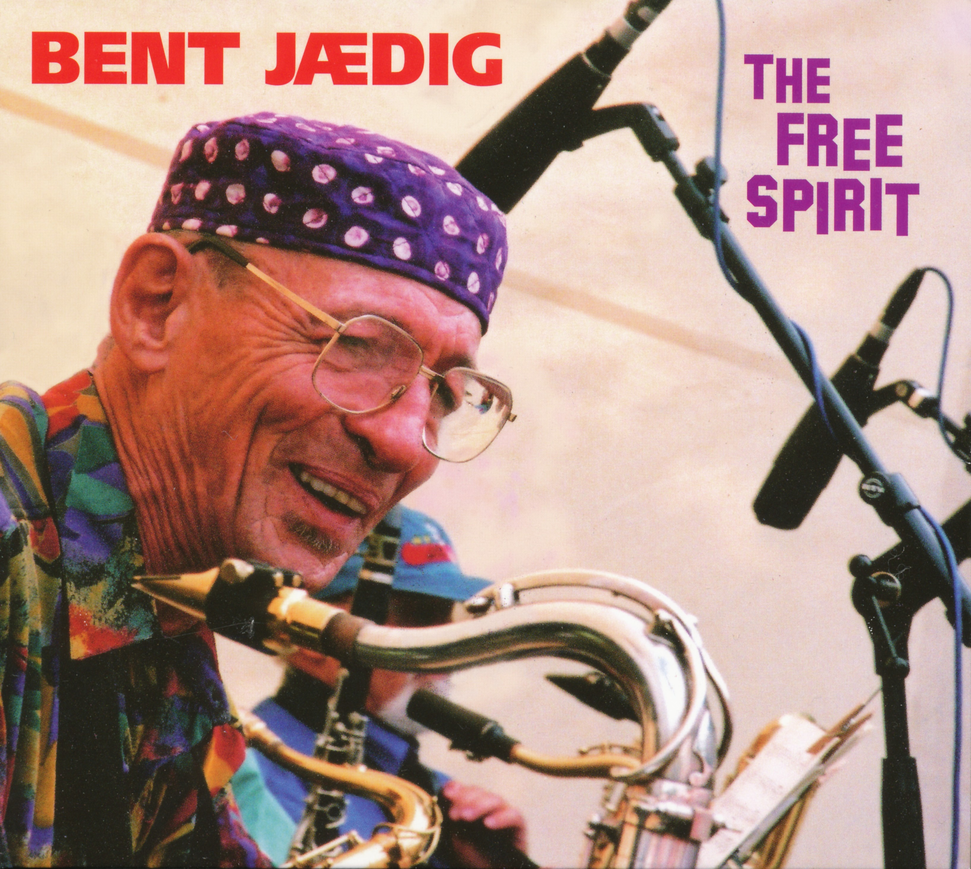 A photo depicting Bent Jædig